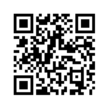 QR code witch contains the URL: Italian mobile Wikipedia Main Page